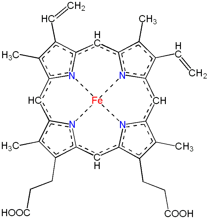 Heme with delocalized bonds